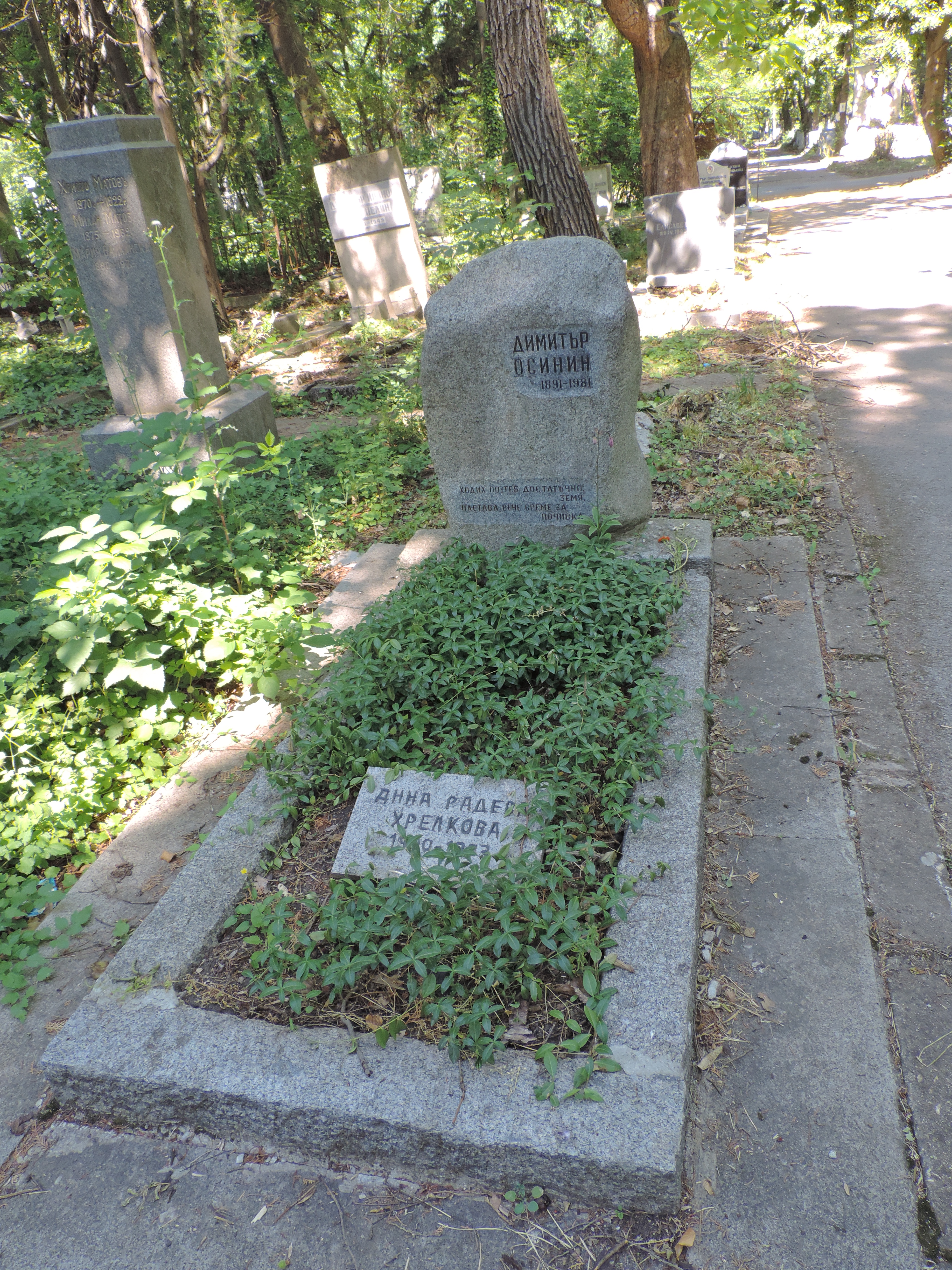 Central Sofia Cemetery